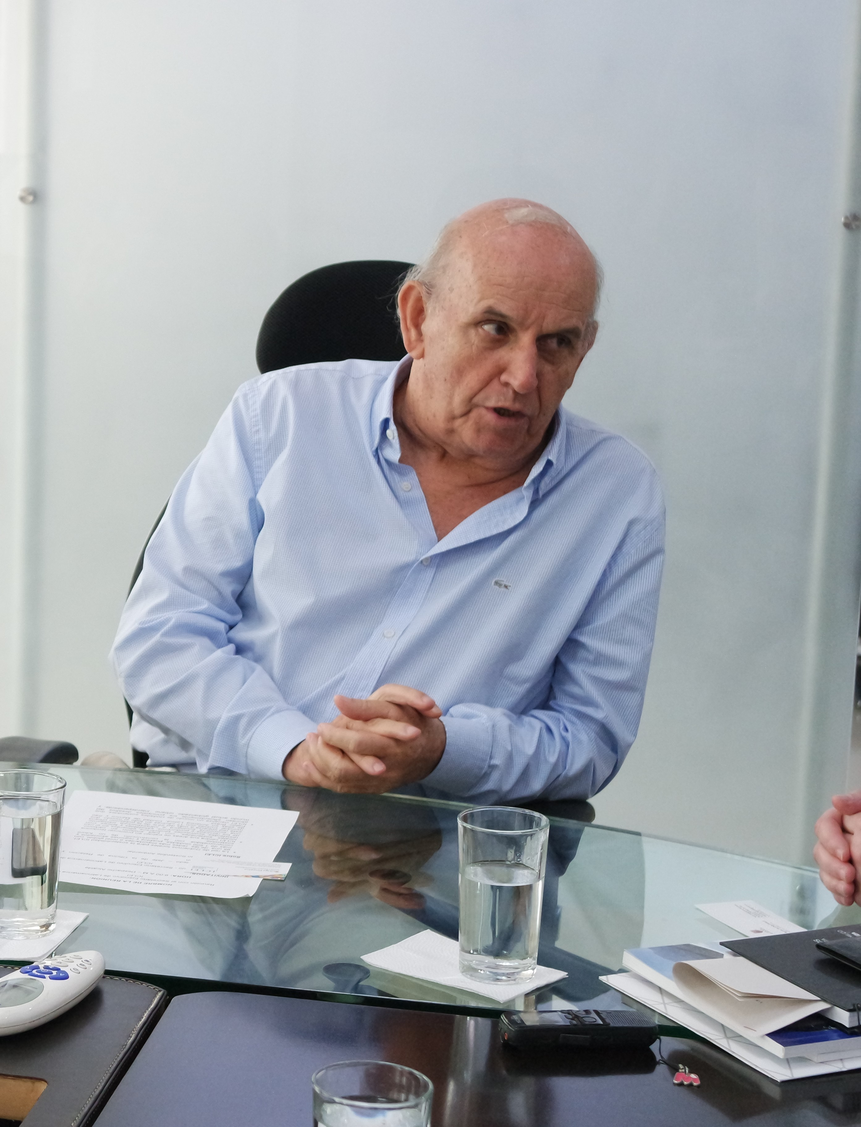 Reunión de ICLEI América del Sur e ICLEI Colombia con Alcalde de Cali, Maurice Armitage - Santiago de Cali, Octubre, 2018